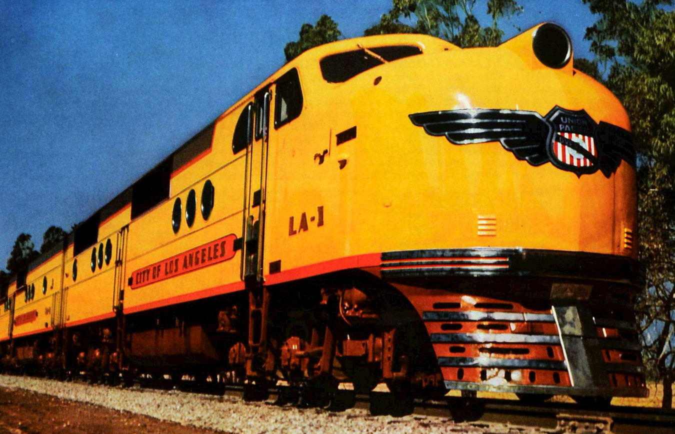 Photo of the EMC E2 locomotive LA-1 from the Union Pacific train "City of Los Angeles" from a 1944 Union Pacific Railroad ad.